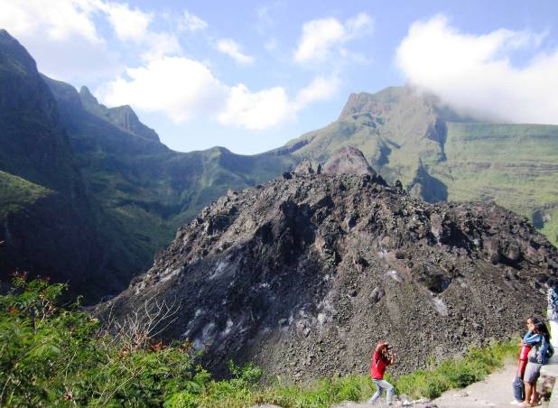 Kelud Peak at the background of the new lava dome (birth year: 2007). On the left is part of Gajahmungkur Peak. The crater complex since 2004 is a tourist destination. Update: The lava dome was vanished on sudden eruption at February 14, 2014, after which tourists are not allowed anymore to enter the crater complex, unless for ceremonial purposes.